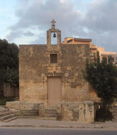 Tal-Mensija Chapel, San Gwann